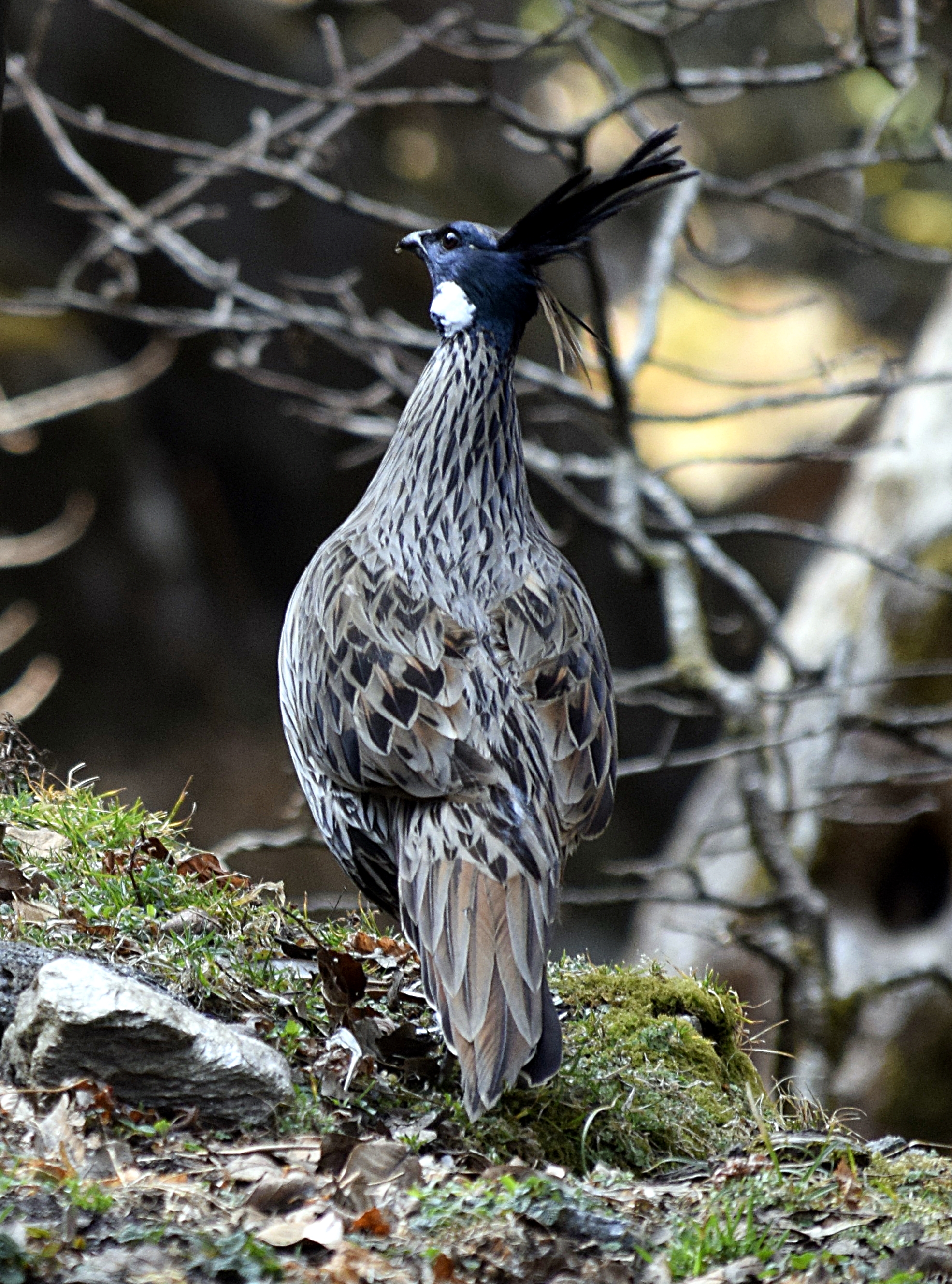 A most elusive bird from himalayas